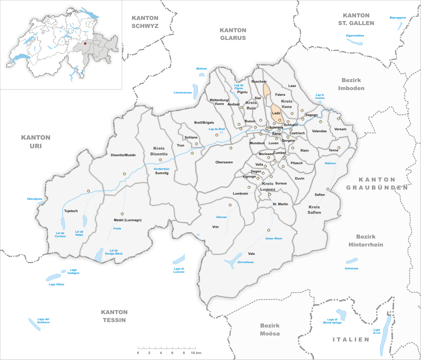 Municipality Ladir